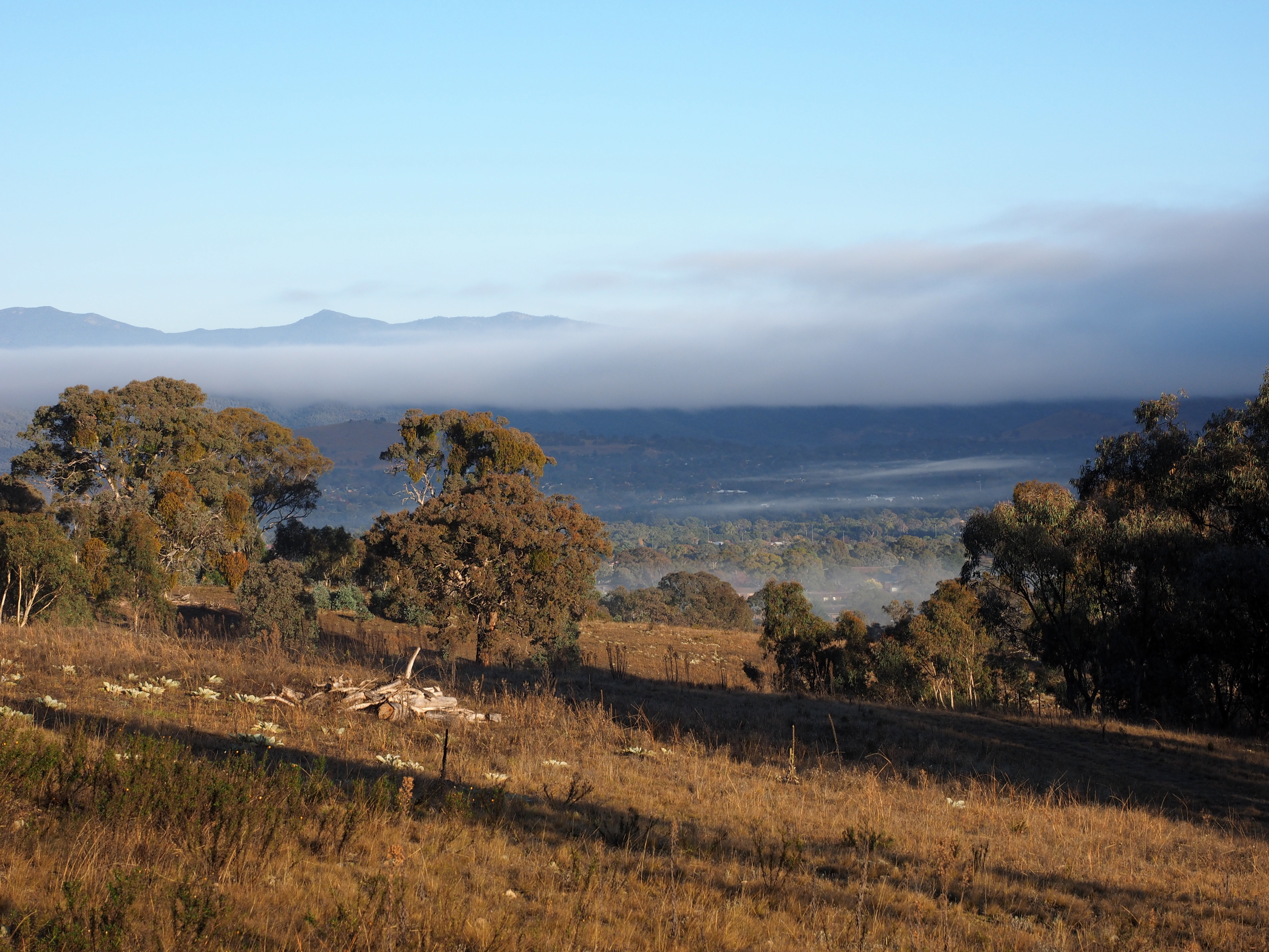 View towards the Brindabellas pn a foggy morning in Wanniassa Hills Nature Reserve